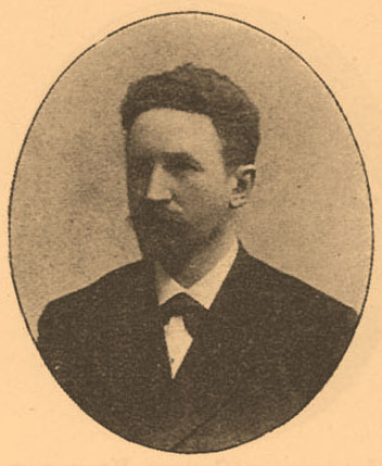 Illustration from Brockhaus and Efron Encyclopedic Dictionary (1890—1907)